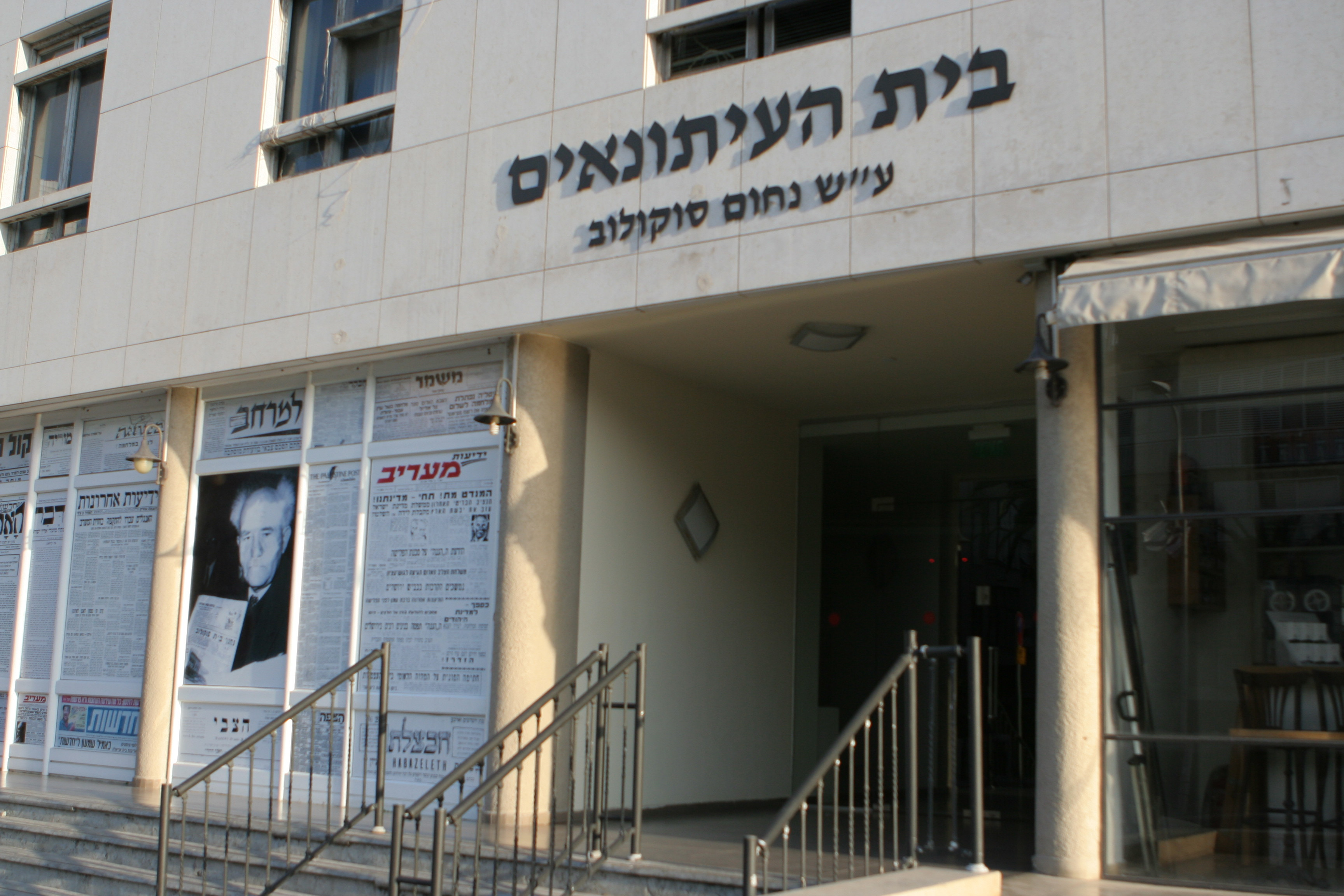 Press House in Tel Aviv in Kaplan Street